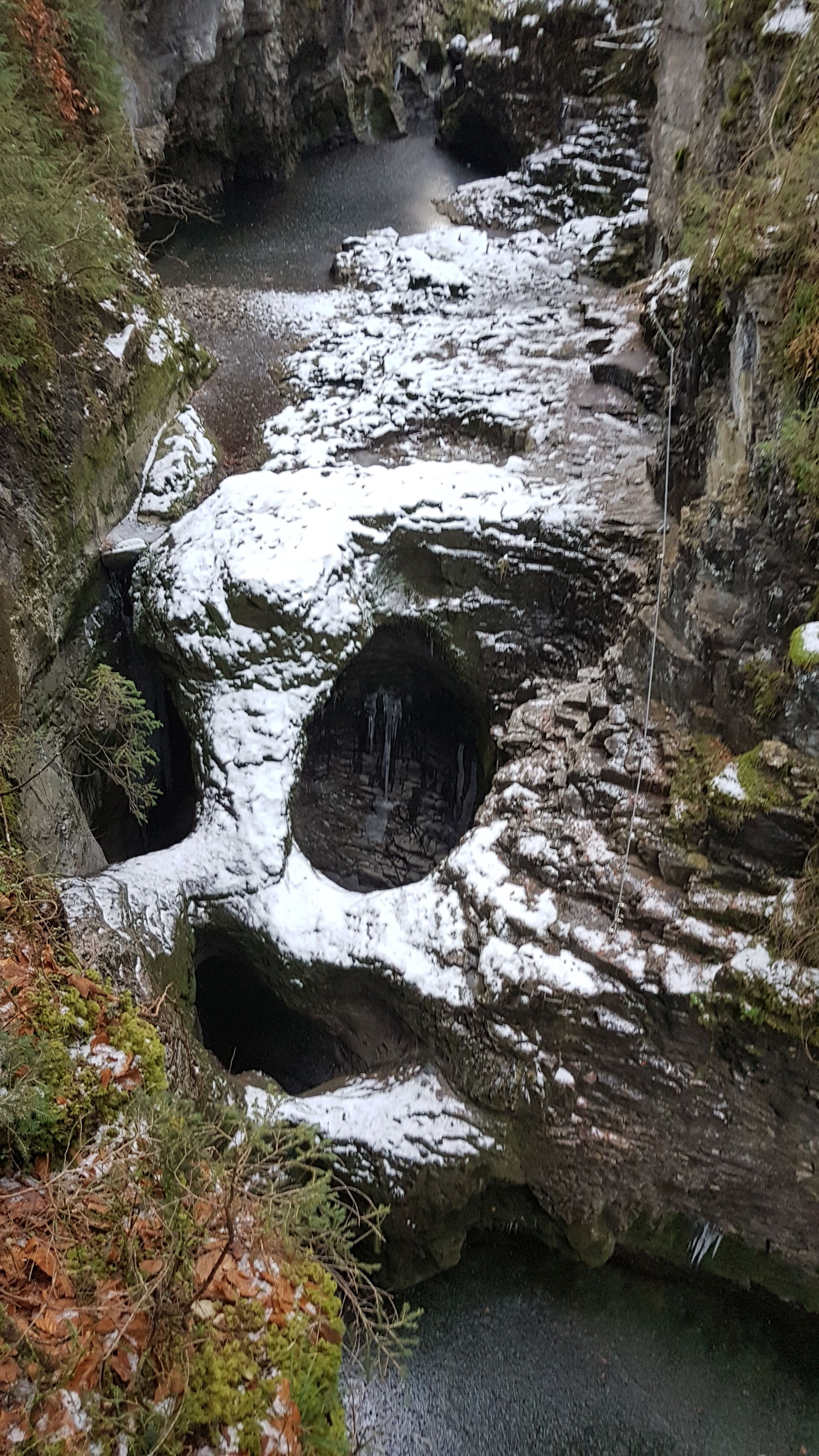 Pothols in the "Schwarzwasserbach" (rivulet), a natural monument, in Rietzlern, community Mittelberg, Vorarlberg, Austria.